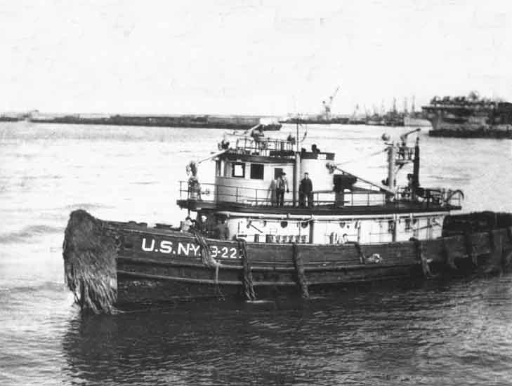 Kasota (YTB-222) coming along and unidentified ship at Norfolk, VA., date unknown. US Navy photo